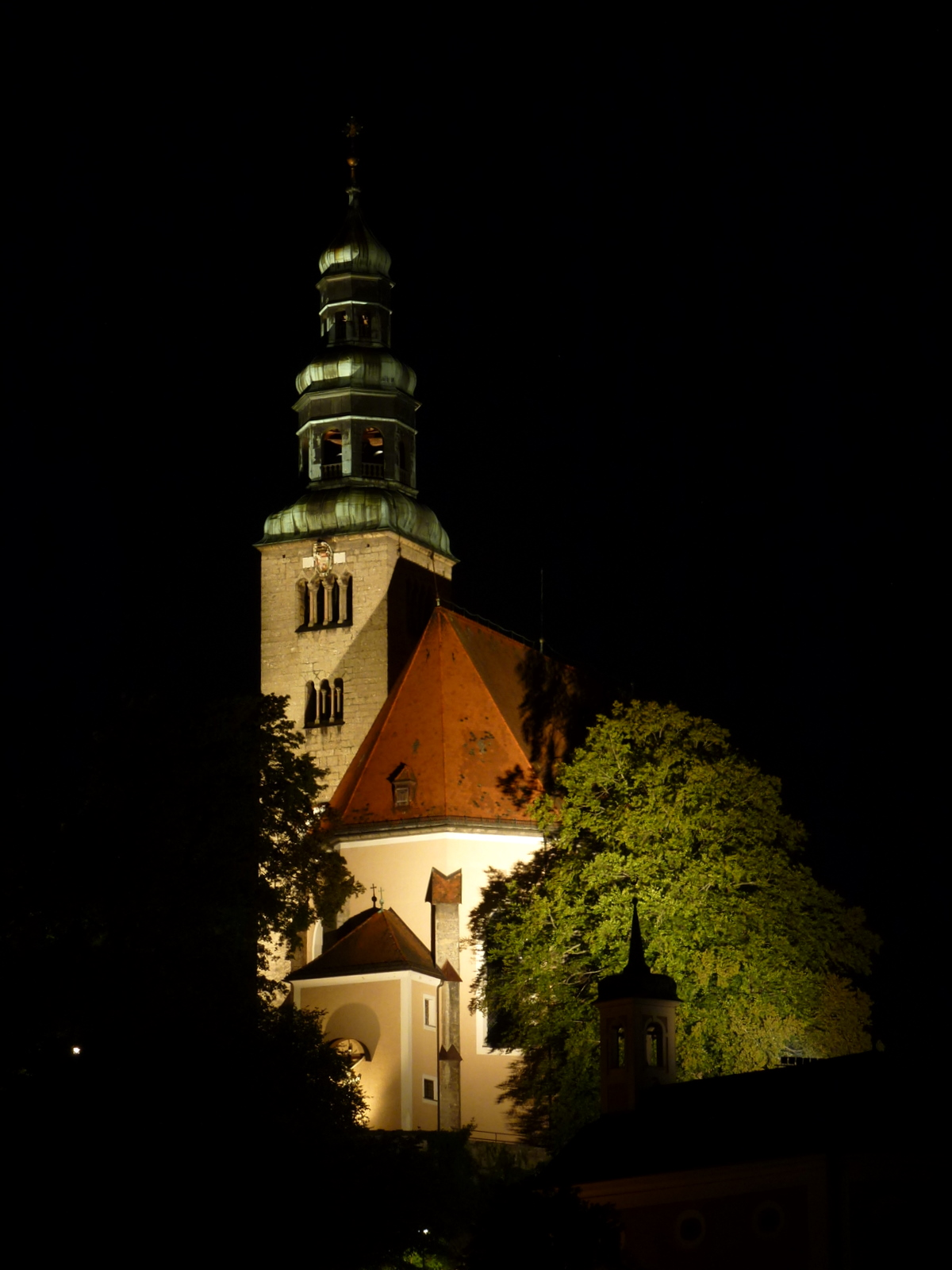 Müllner Kirche by night(Salzburg)